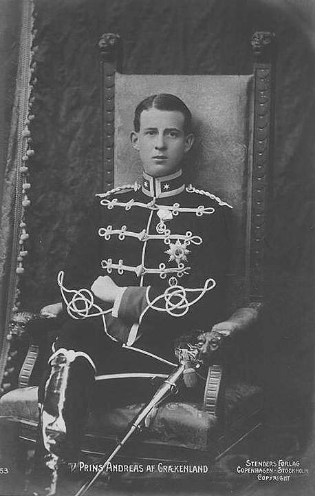 His Royal Highness Prince Andrew of Greece and Denmark, father in-law of her most excellent, gracious and Brittanic majesty the Queen Elisabeth of the UK